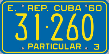 Cuba license plate valid from January until July 1960. Computer drawing.